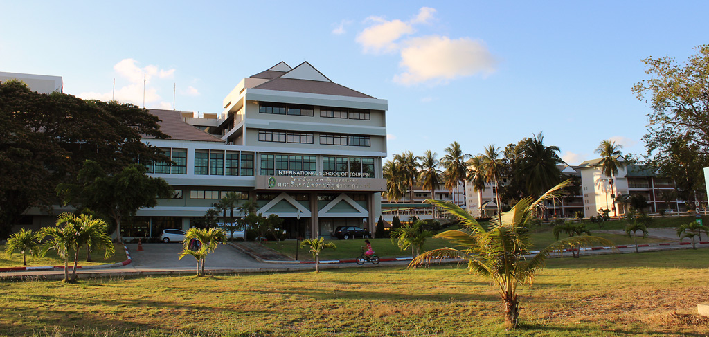 International School of Tourism (Samui Island), department of Suratthani Rajabhat University (Thailand)